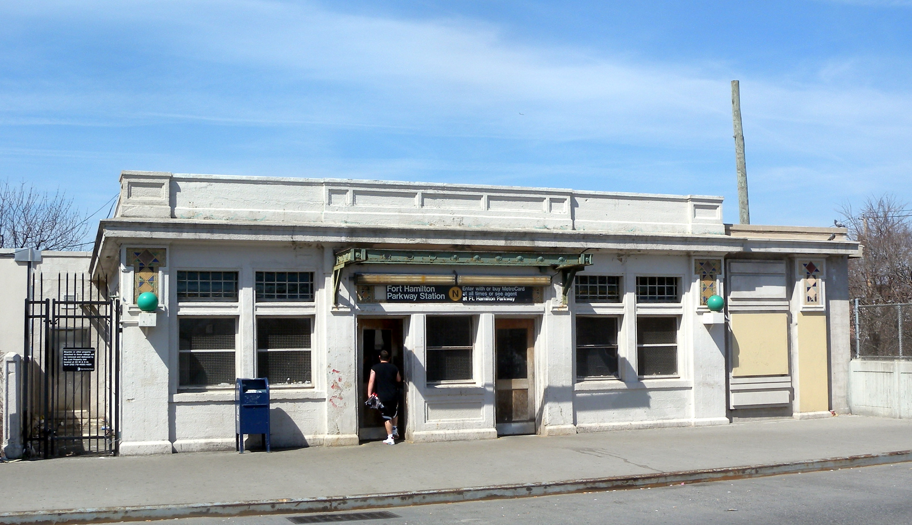 Looking northwest across 11th Avenue at Ft Hamilton Pkwy station of its Sea Beach Line on a sunny afternoon.